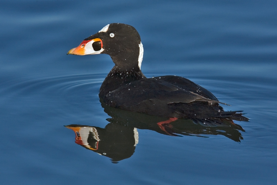 Melanitta perspicillata - Surf Scoter (Male), Bolsa Chica Ecological Reserve, Huntington Beach, California